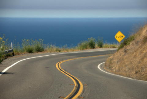 California State Route 1 winds along the Pacific coast in Marin County, north of Golden Gate Bridge